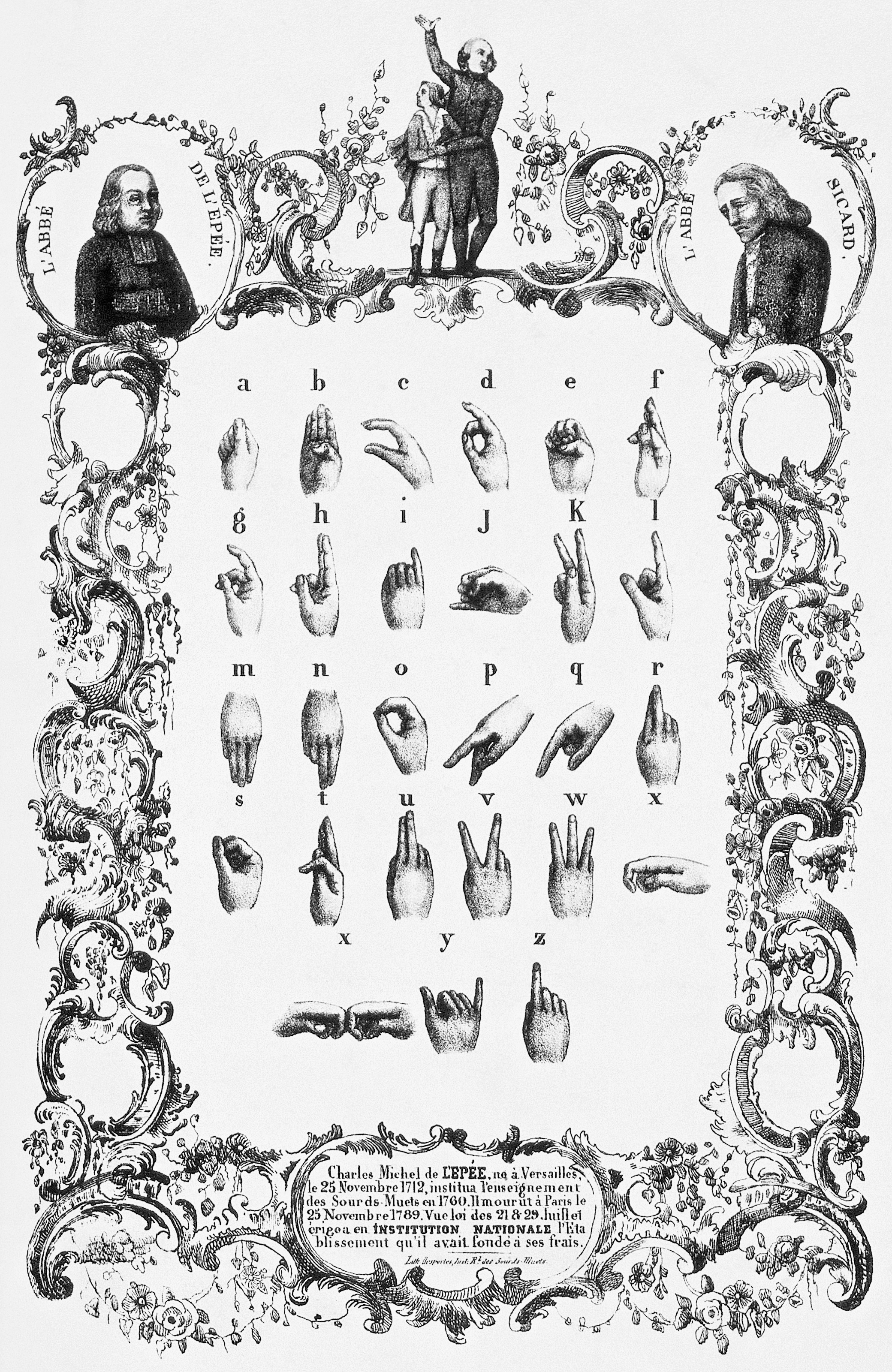 Lithograph of the fingerspelling alphabet in the French sign language with decorative border and medallions of the two deaf educators Abbé C. M. de l'Epée and Sicard (right). Above, probably the picture of Laurent Clerc's admission to the national institute for deaf children.